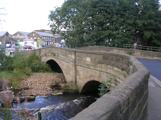 Bridge over River Worth - Coney Street